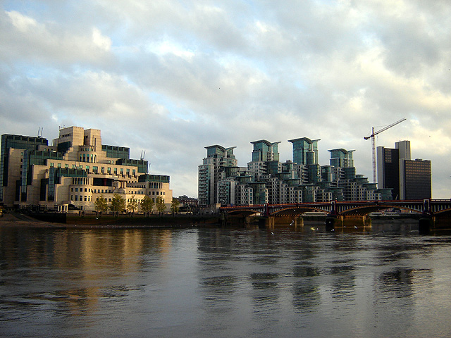 Vauxhall buildings and bridge, London. 29 October 2005. Photographer: Fin Fahey